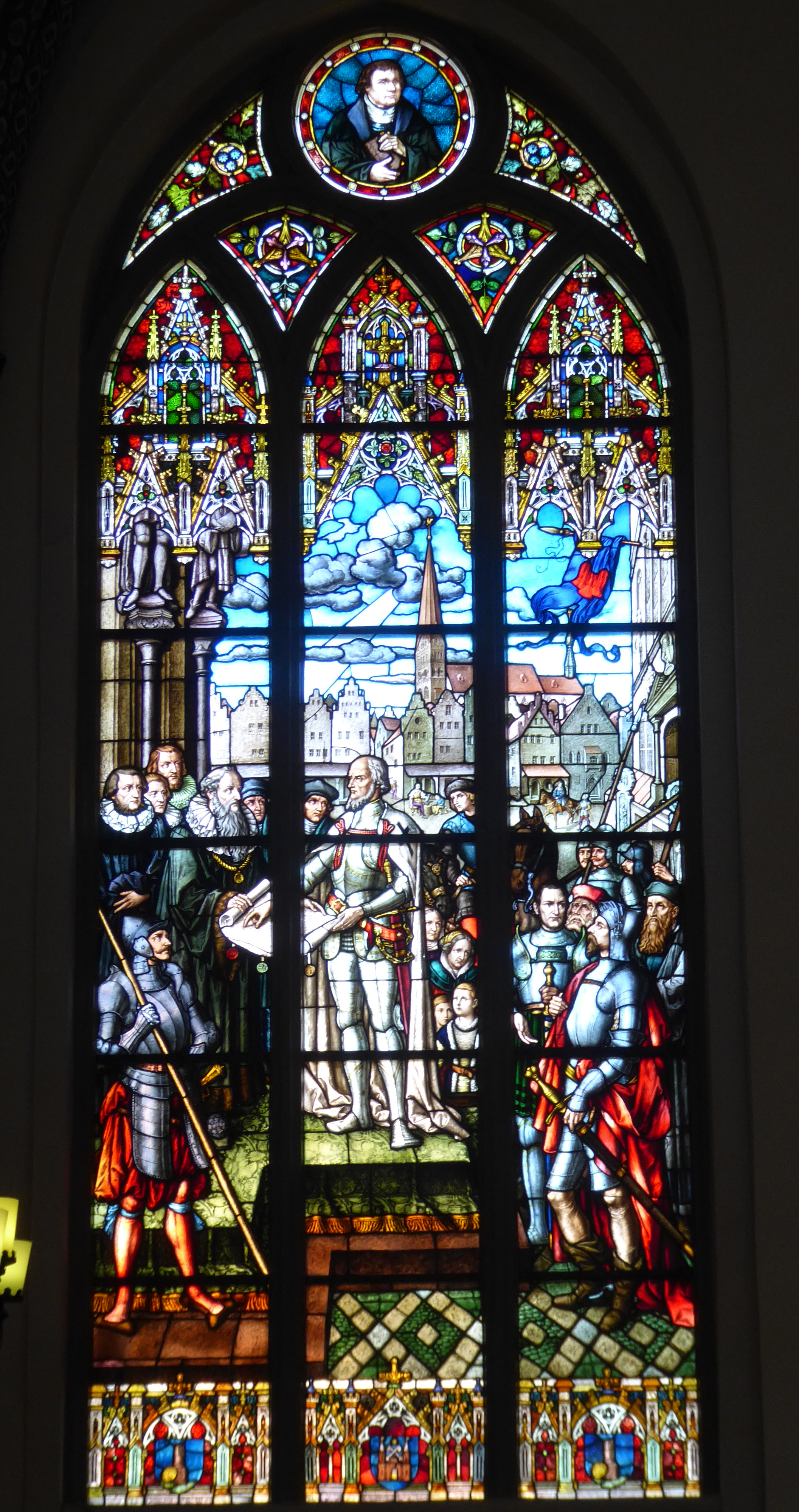 Stained-glass window in Riga's Dome Cathedral